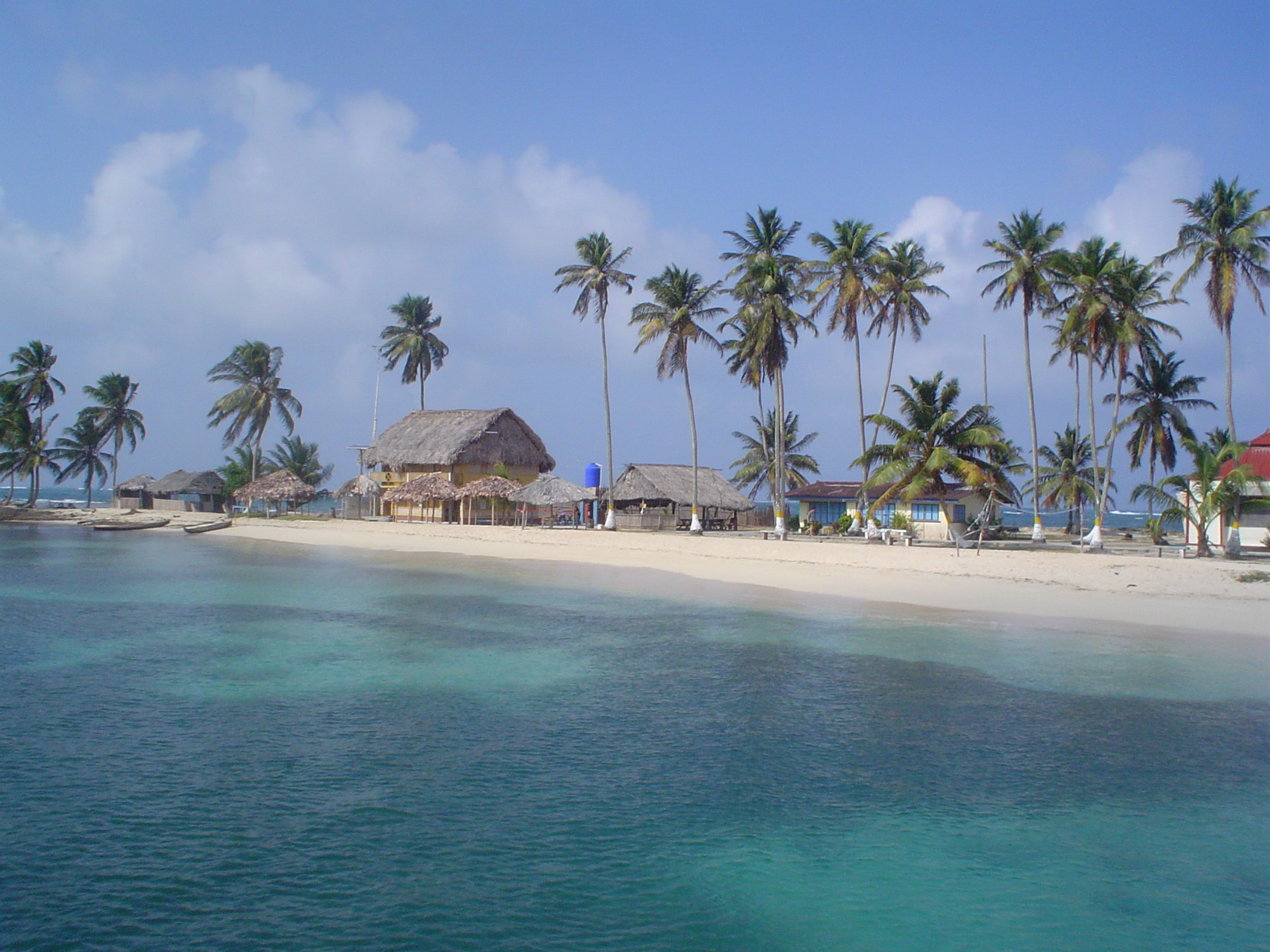 el Archipiélago de Kuna Yala